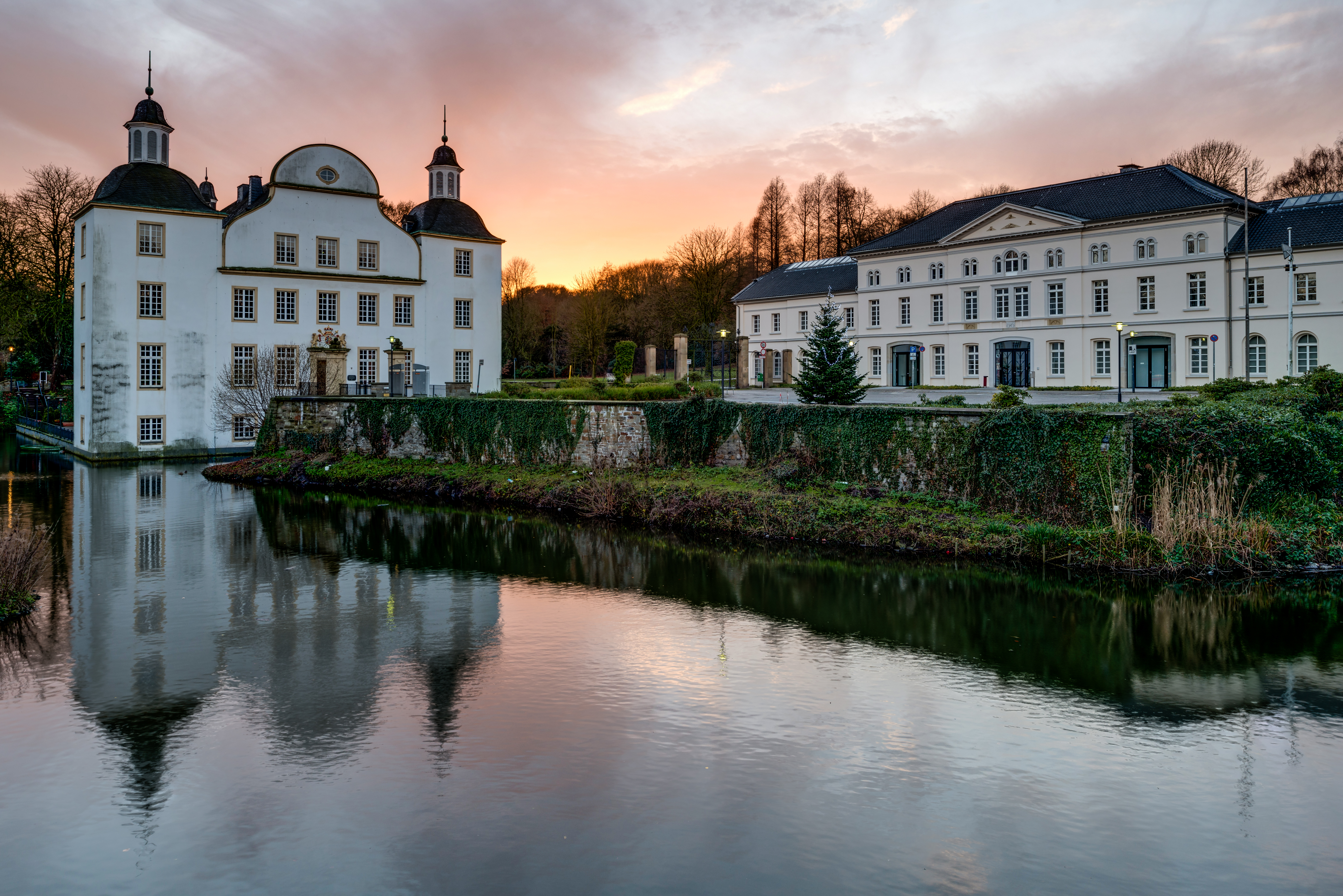 Castle of Borbeck with outbuilding in the evening